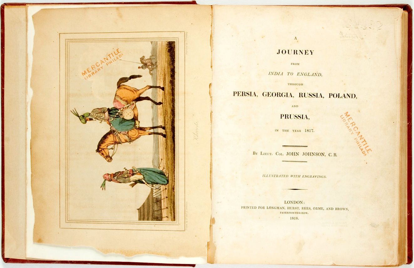 Title pages from "A journey from India to England, through Persia, Georgia, Russia, Poland, and Prussia, in the year 1817" by Lieut. Col. John Johnson (1768 — 1846). Engraved by Theodore Henry Adolphus Fielding (1781 – 1851)